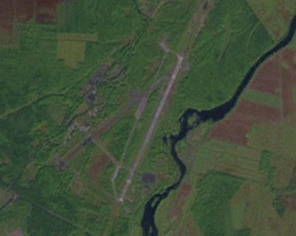 Petrozavodsk/Besovets airfield, former Soviet Union. Image from NASA World Wind.